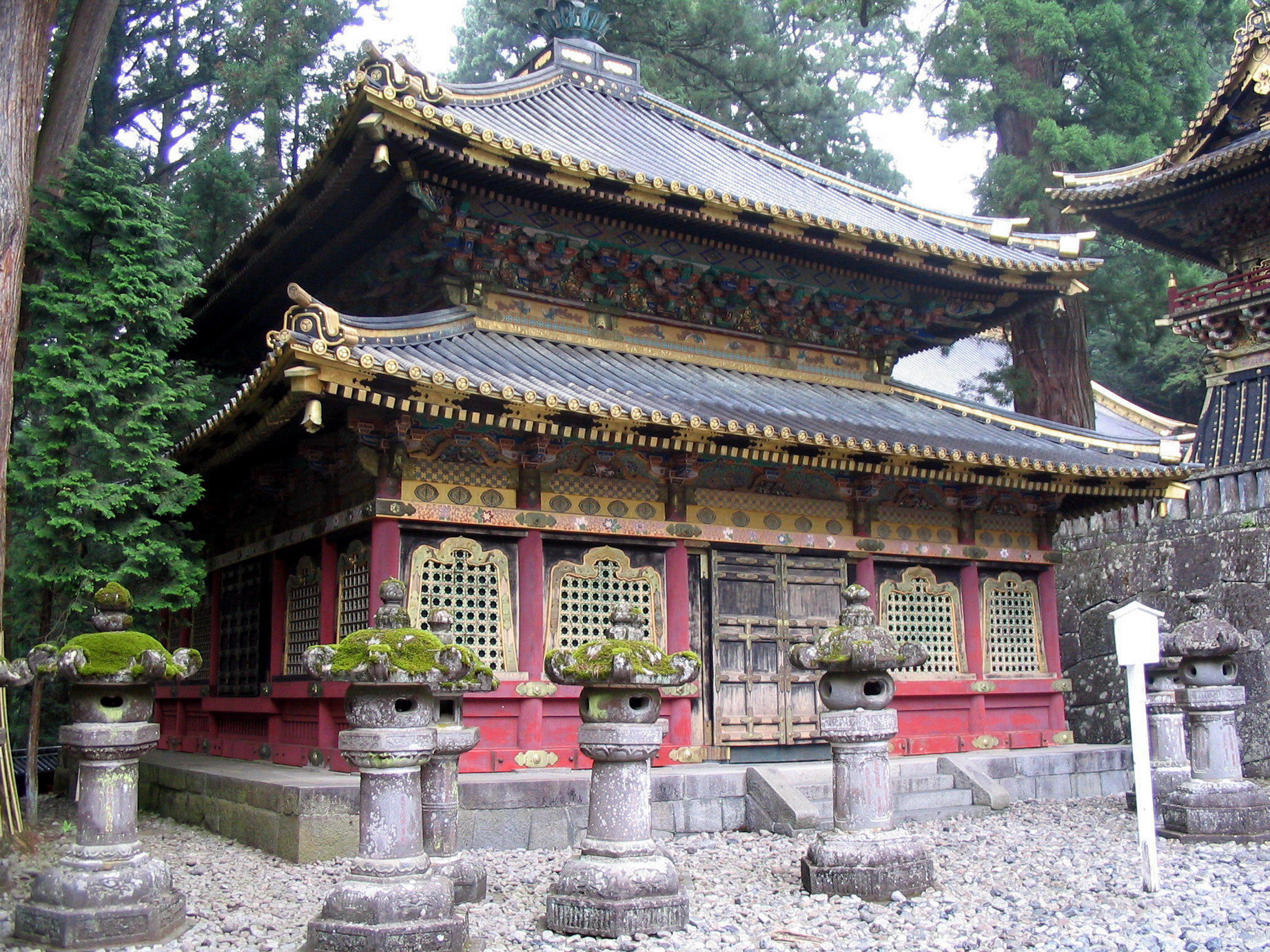 Kyozo in the thoshogu shrine, Nikko, Japan.